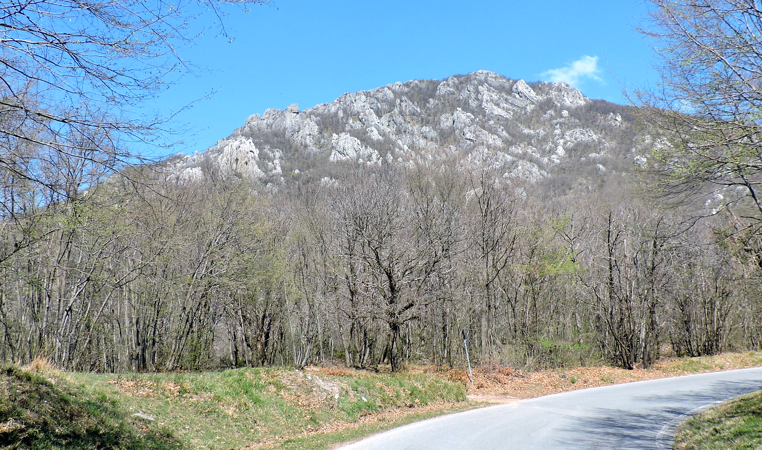 Rocca Barbena (SV, Italy): southern view